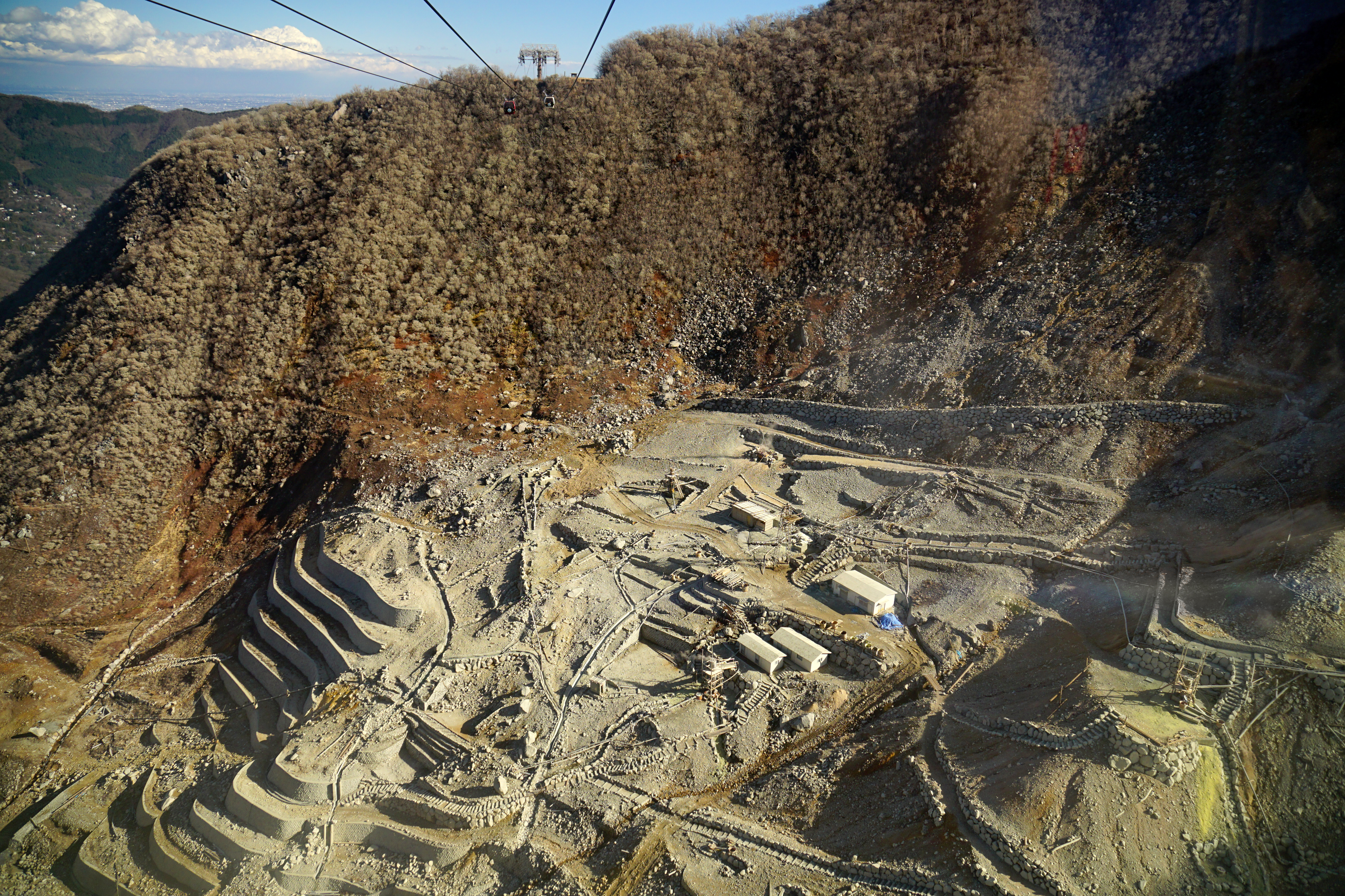 Ōwakudani in Hakone Kanagawa prefecture, Japan